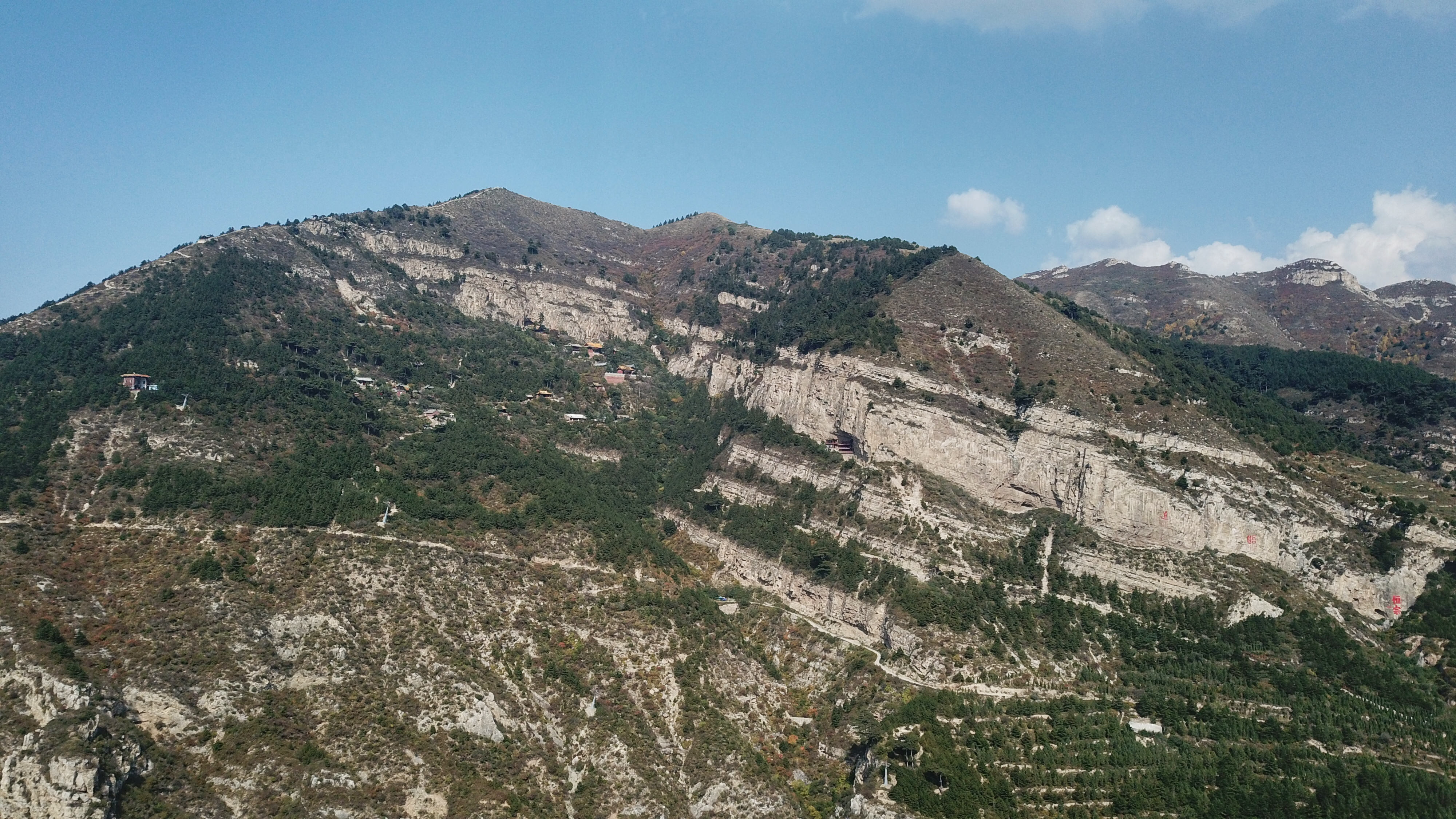 Mount Heng（Hengshan）, is a mountain in north-central China's Shanxi Province, known as the northern mountain of the Five Great Mountains of China.